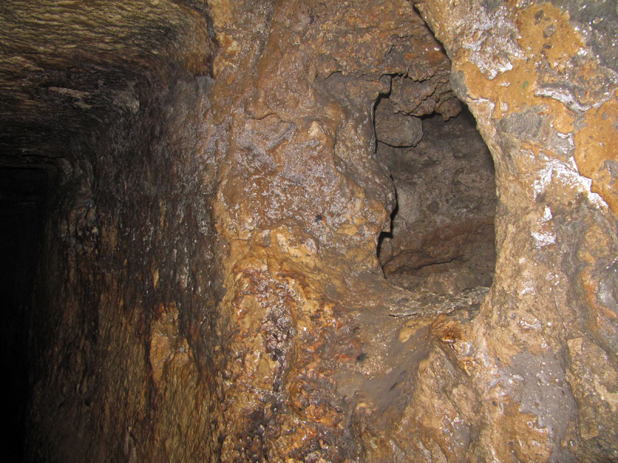 Hezekiah's Tunnel